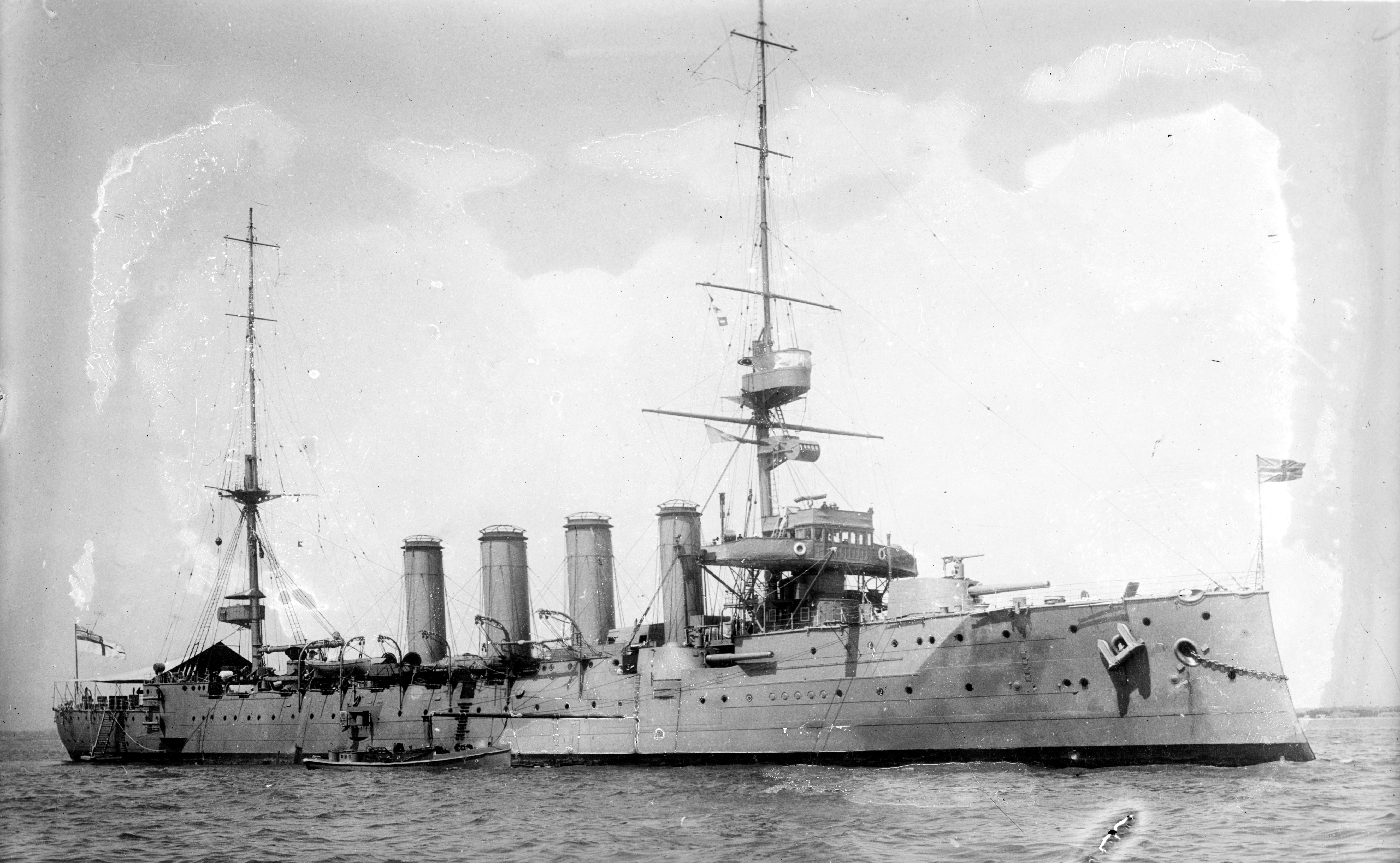 British cruiser HMS Antrim